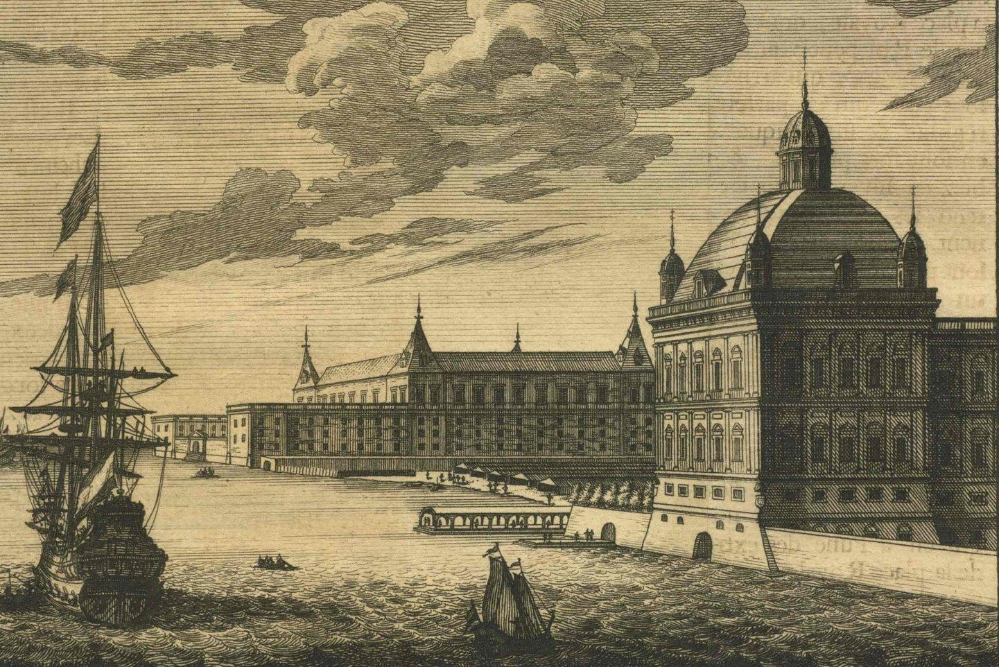 18th century from the harbour by Guillaume Debrie (2)